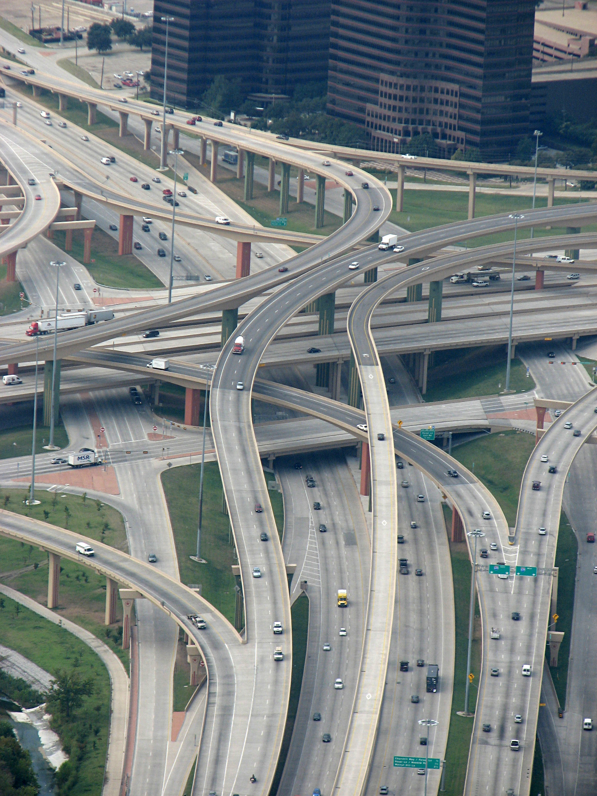 High Five Interchange at the intersection of I-635 and U.S. Route 75 in Dallas, Texas, looking towards the southwest